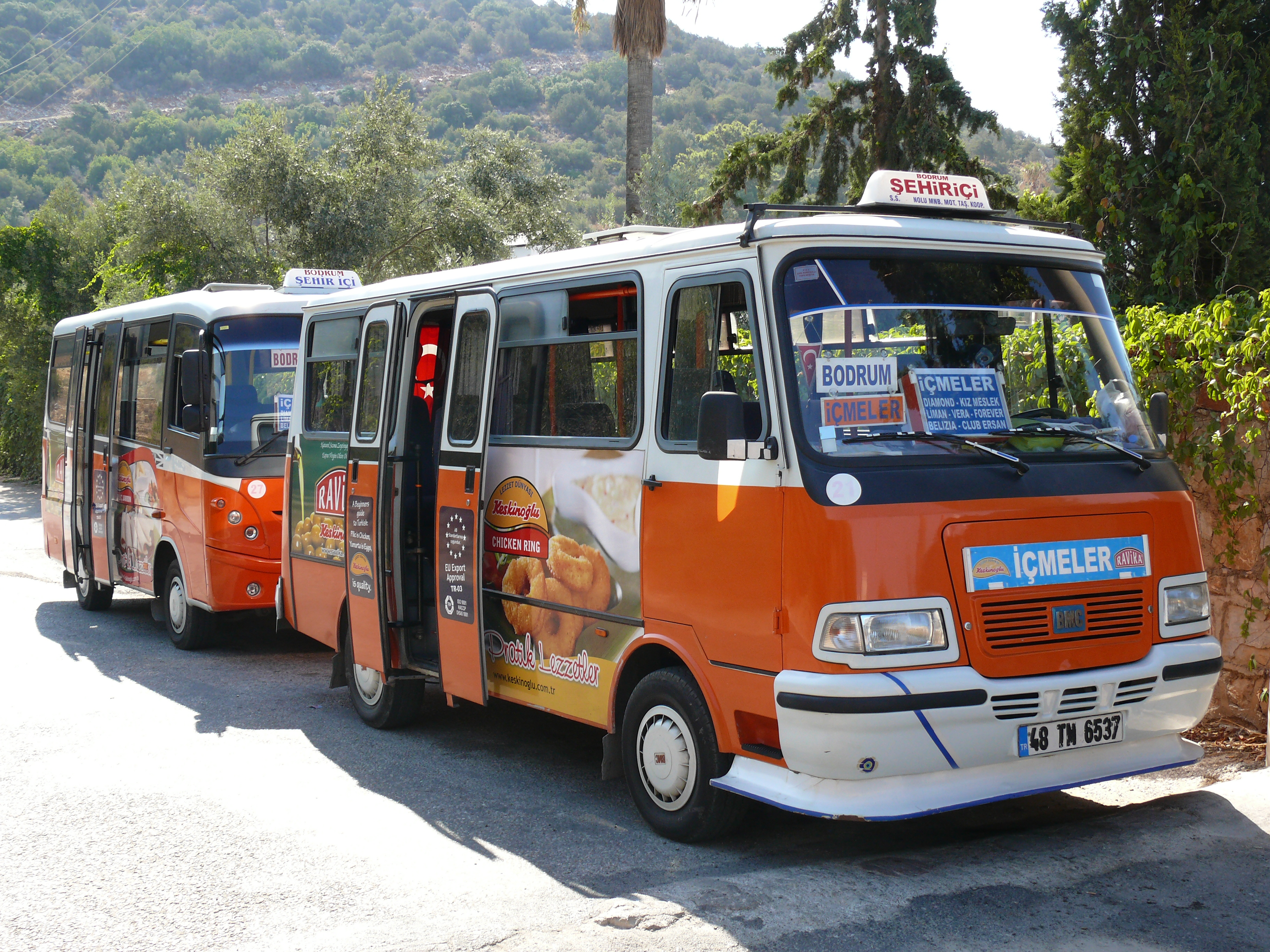 Dolmuş terminus at Ersan resort, Bodrum.